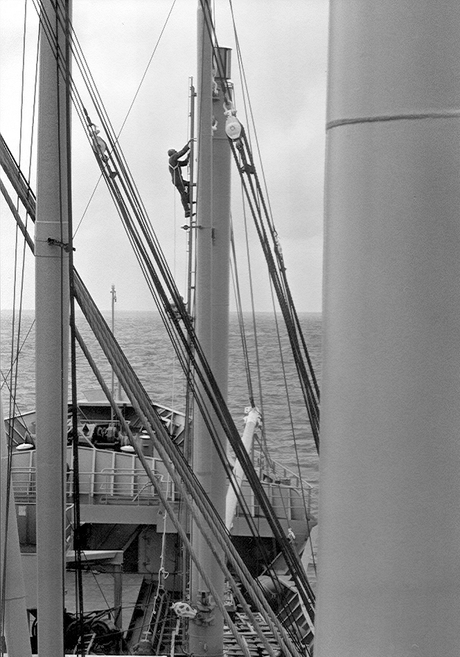 An able-bodied seaman climbs a kingpost aboard a general cargo ship or freighter. The seaman shown here is going aloft to rig a bosun's chair from which he will be suspended while "slushing" or greasing the wire rope of the freighter's cargo handling equipment. Typically, only veteran seamen work aloft and then only during stable sea conditions.